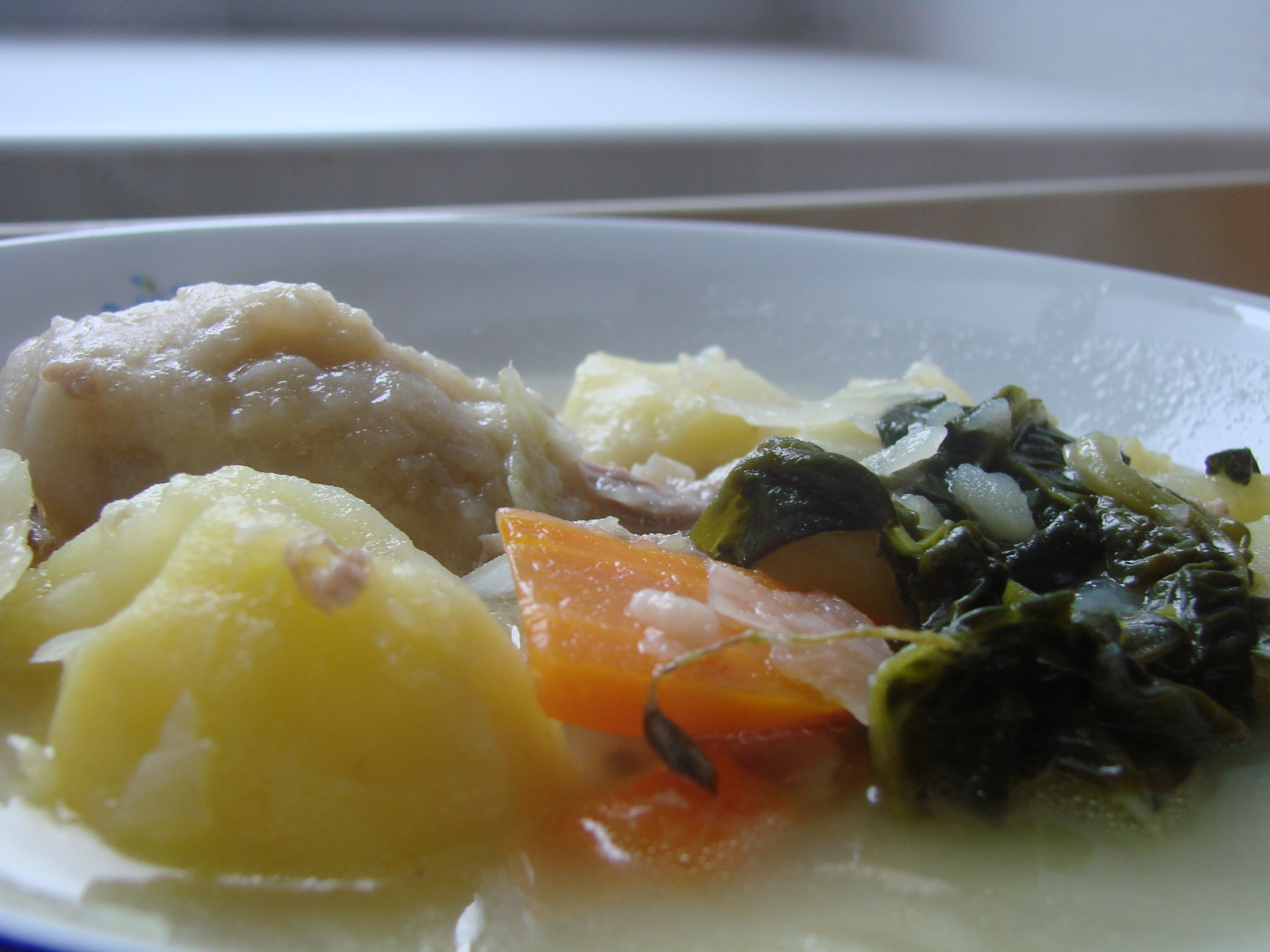 Maori boil-up, a soup made from potatoes, pork bones, dumplings, cabbage and variety of another greens. Pumpkin and sweet potatoes are also added traditionally.